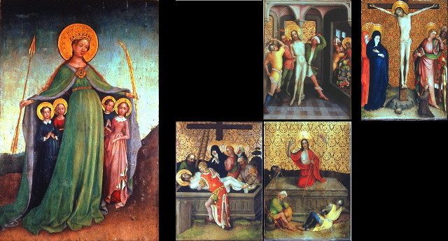 Vue d'ensemble du retable d'Heisterbach wrm xtdok114